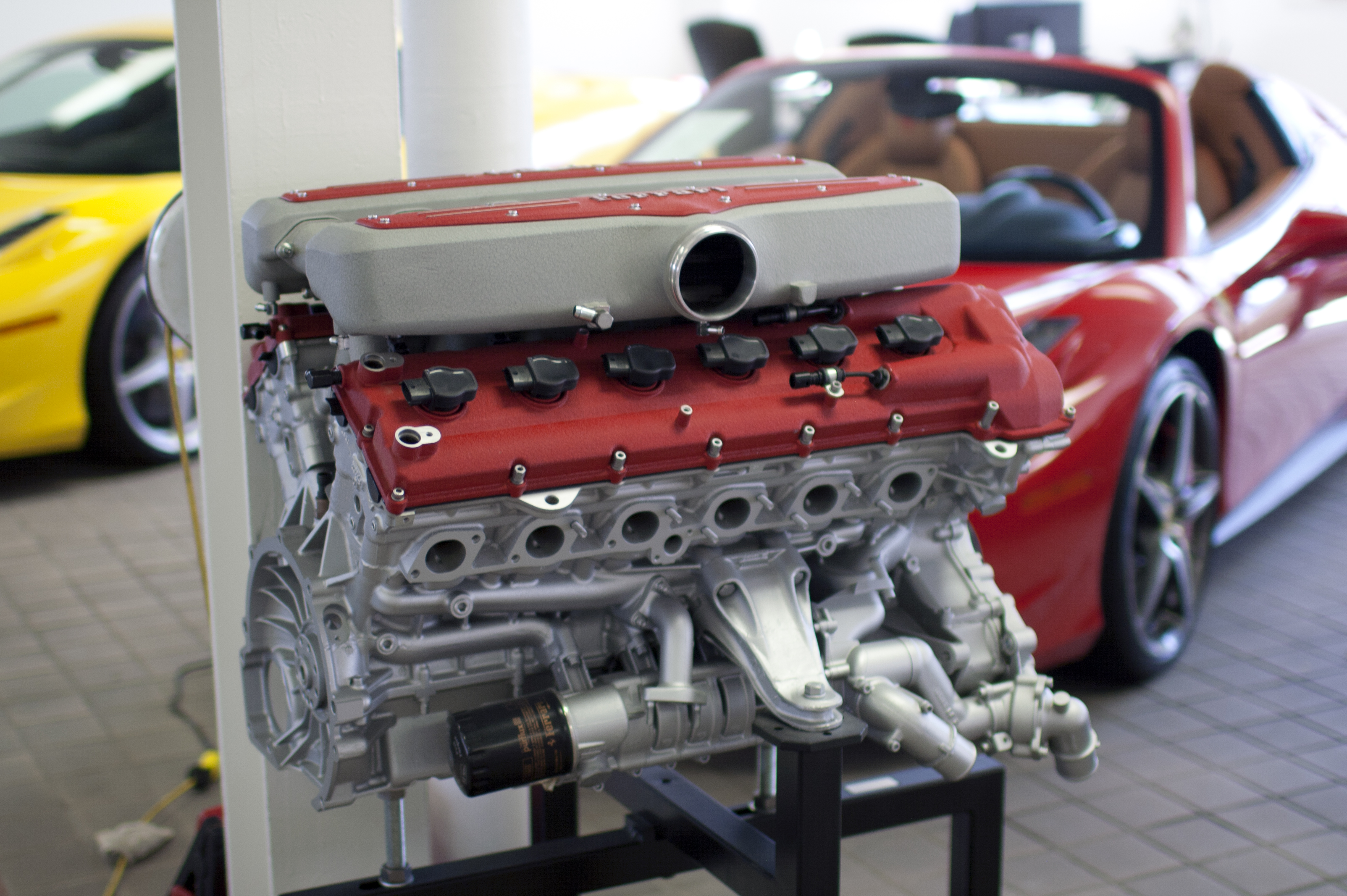 The Ferrari Tipo F140C V12 engine from a 599 GTB Fiorano on display at a dealership.